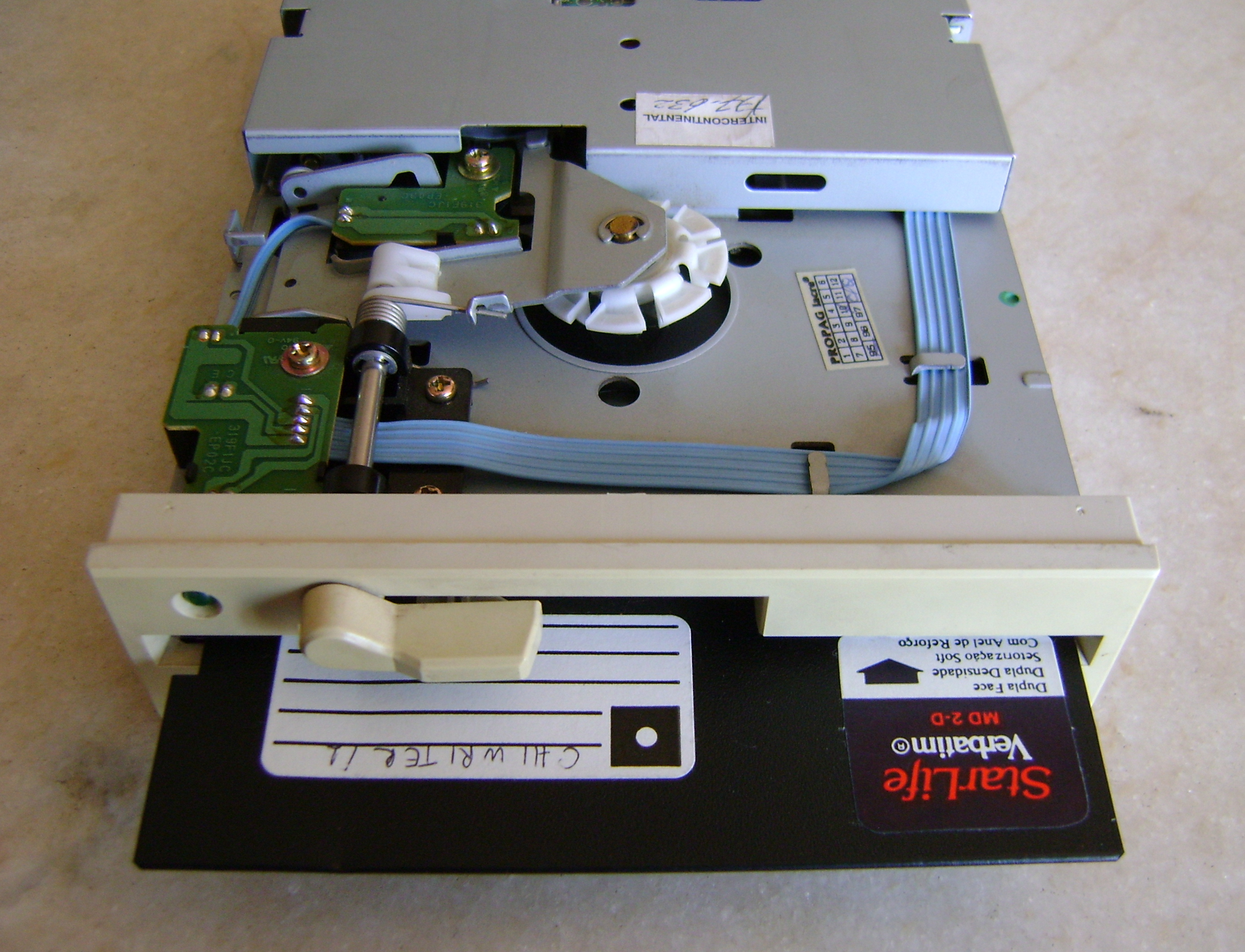 5.25 floppy disk drive